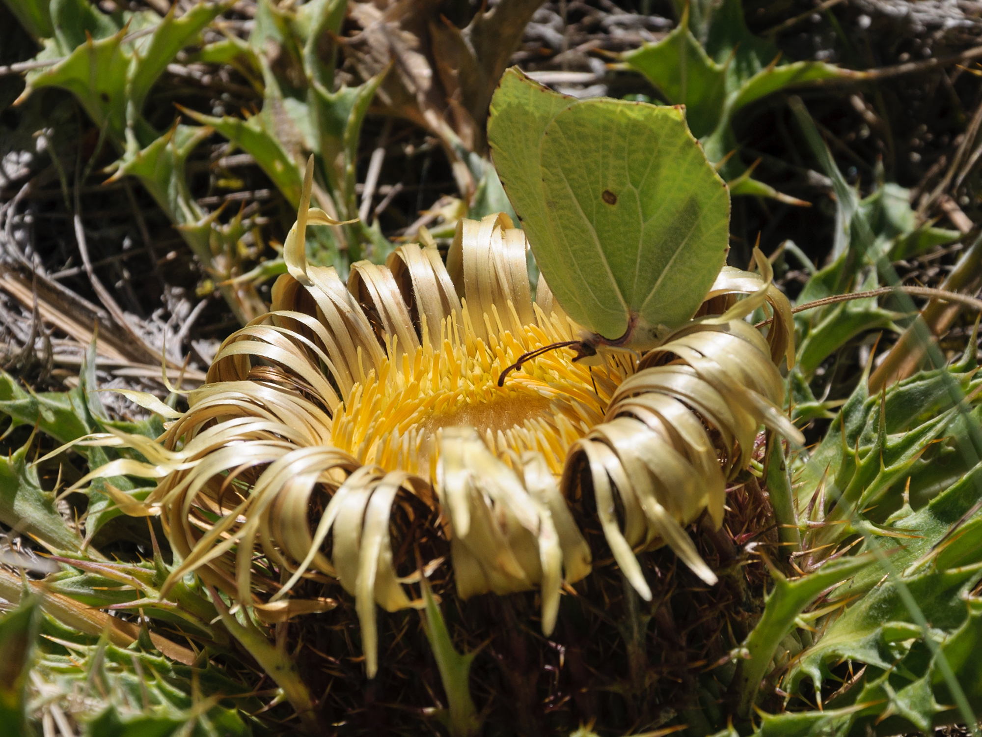 A Common Brimstone (Gonepteryx rhamni) on a Carlina acanthifolia